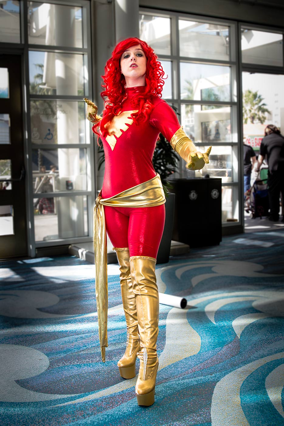 Costume of the fictional character Dark Phoenix. cosplay